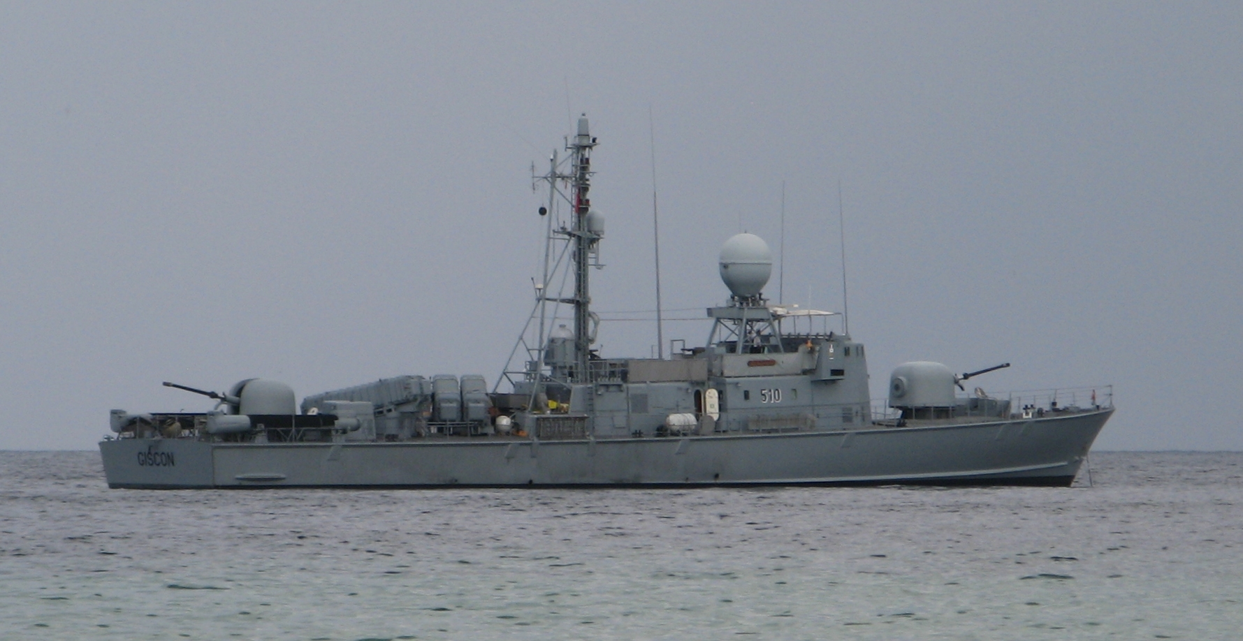 Fast Attack Craft of the type 143 Albatros class. 510 "Giscon" of the Tunisian Navy formerly S70 "Kormoran" of the German Navy.